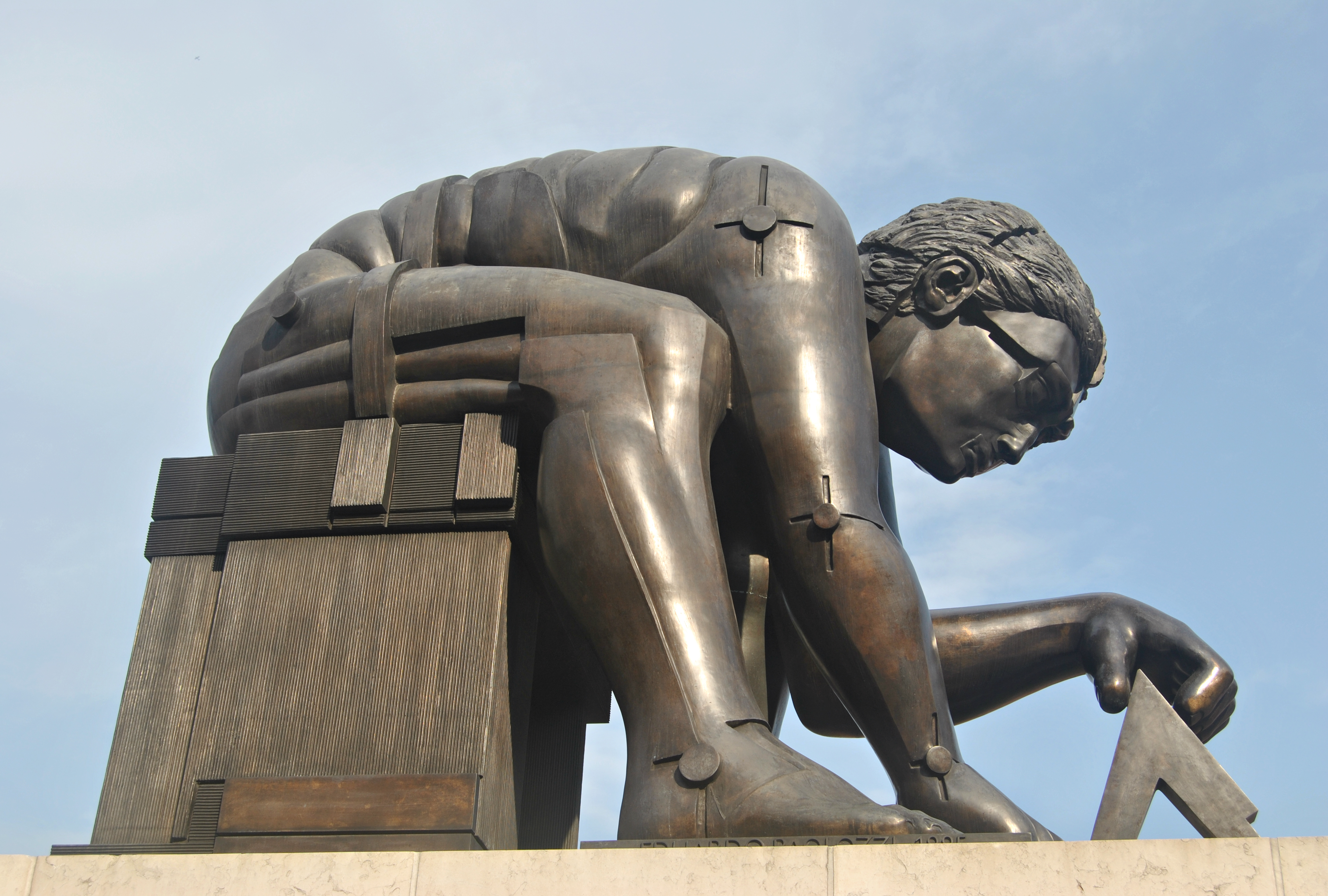 Eduardo Paolozzi's bronze statue of Sir Isaac Newton based on an image inspired by William Blake. Read more about Eduado Paolozzi Here.